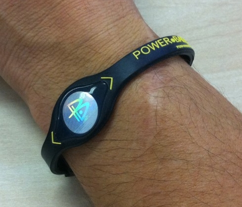 A person wearing a Power Balance bracelet.